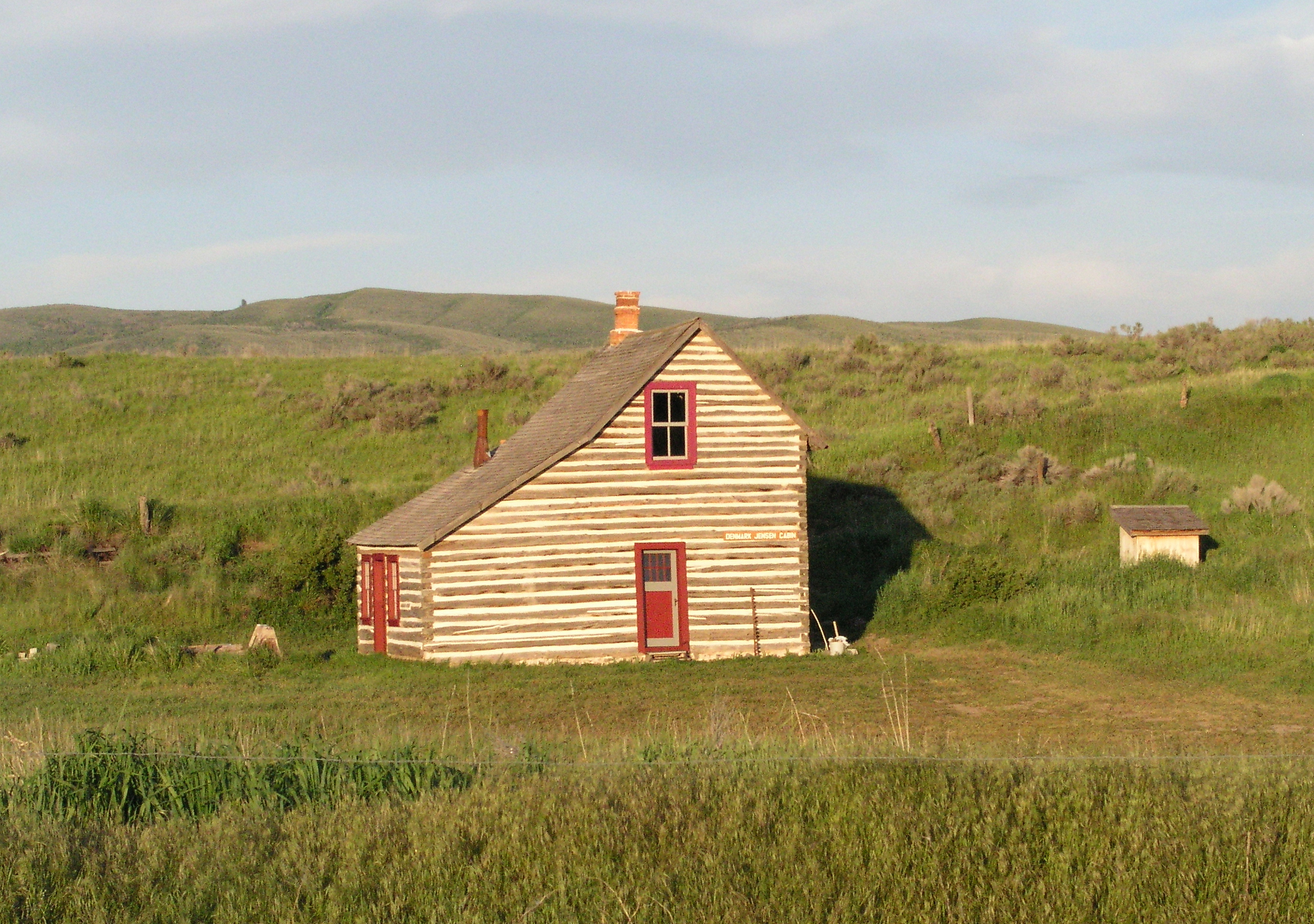 Denmark Jensen House, Chesterfield Idaho